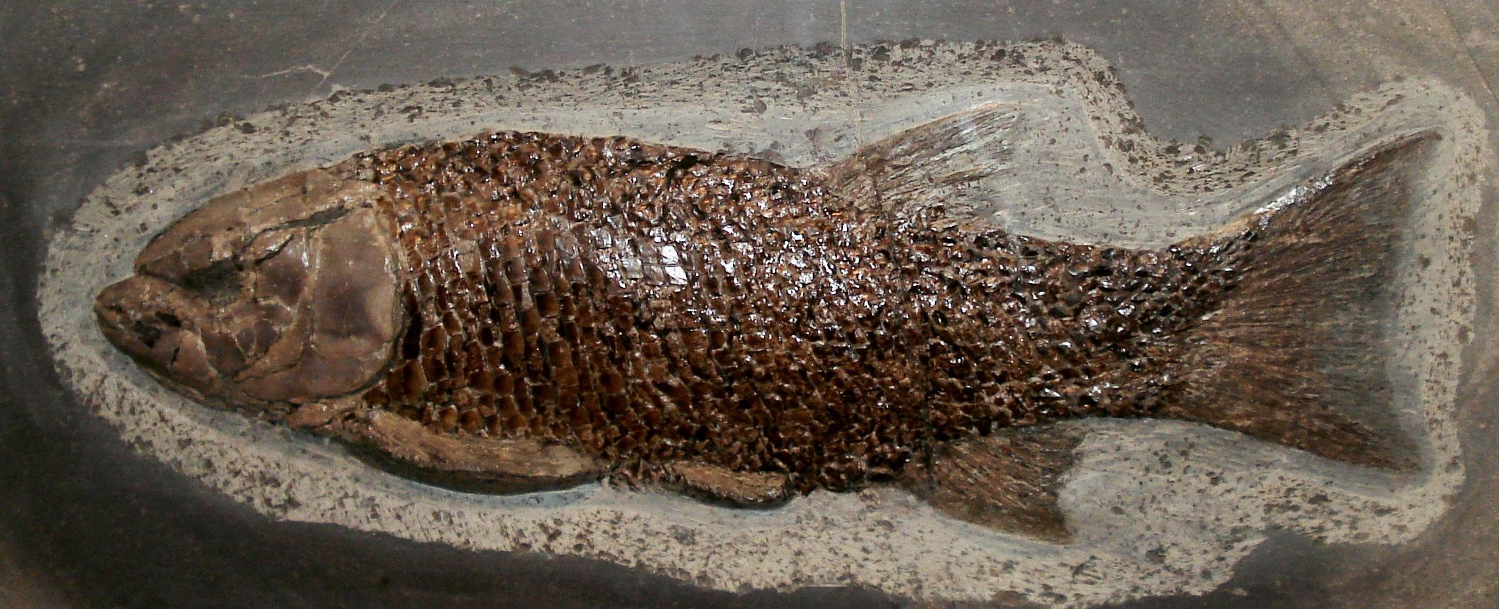 fossil of lepidotes